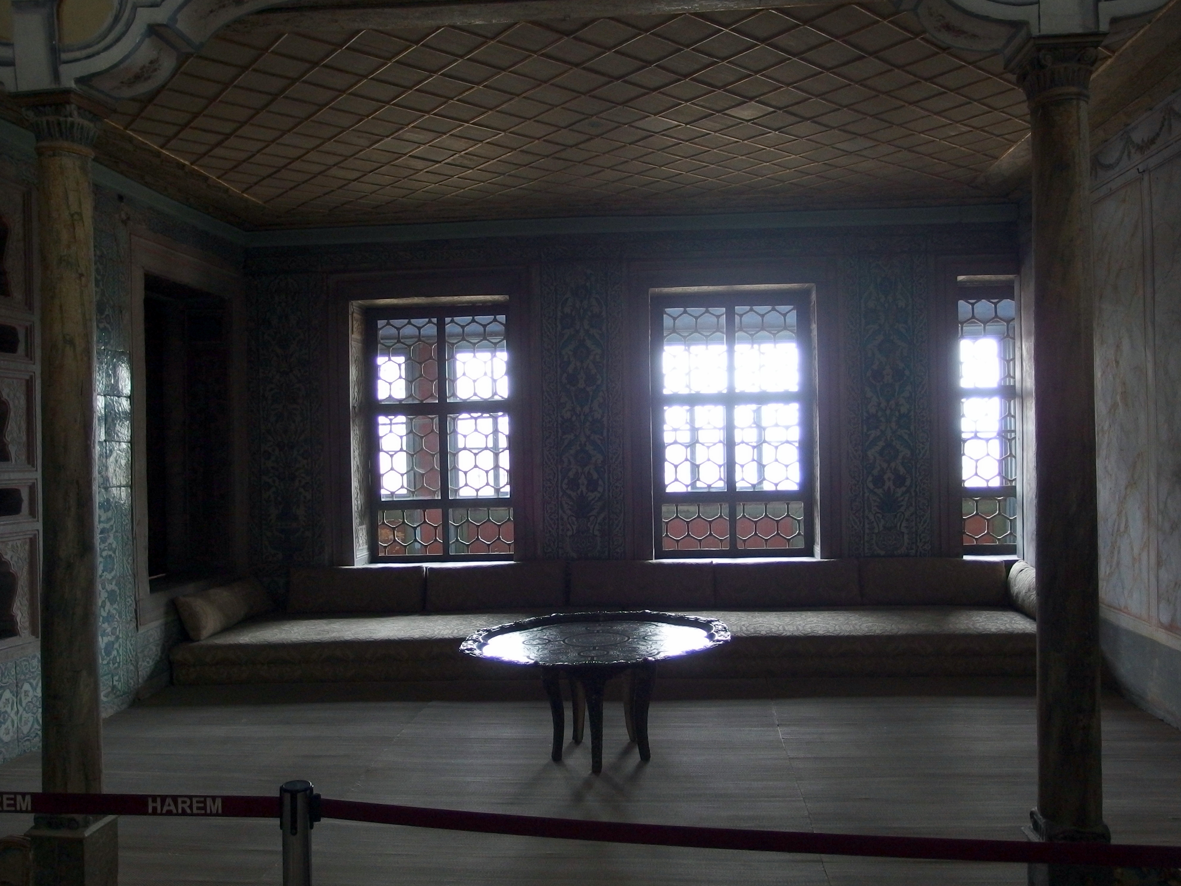 2013-12-04 in Istanbul.